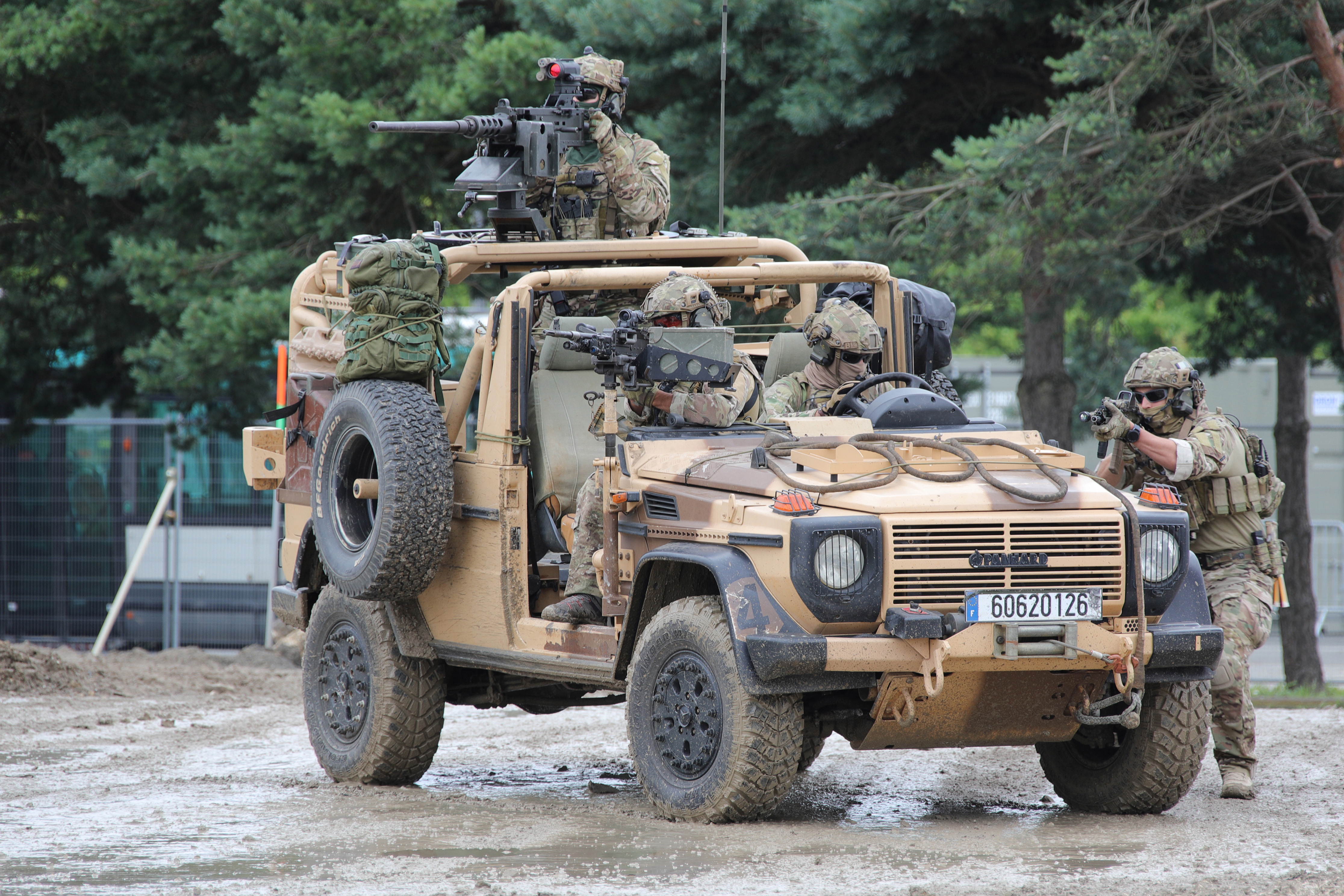 French army special forces team during a hostage rescue demo-1 June 2018